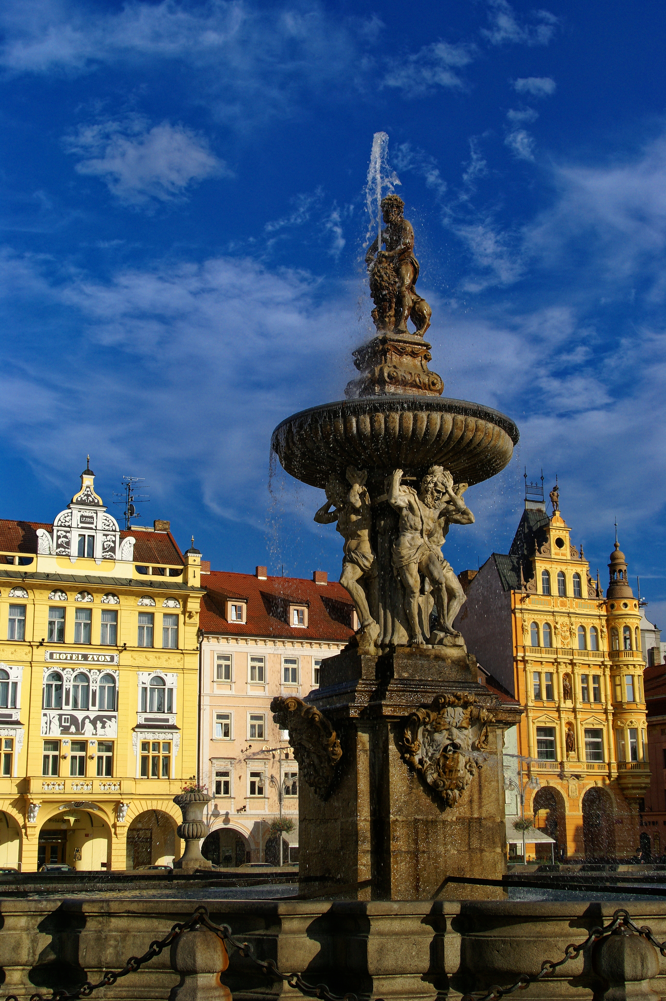 České Budějovice - Náměstí Přemysla Otakara II - Samson Fountain 1727